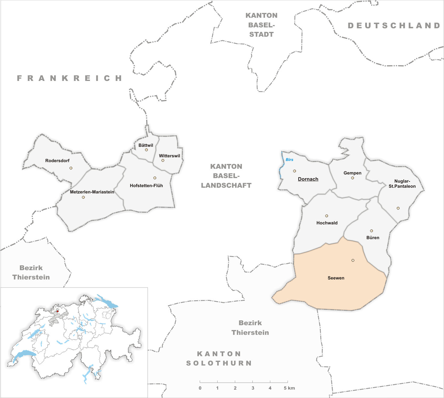 Municipality Seewen